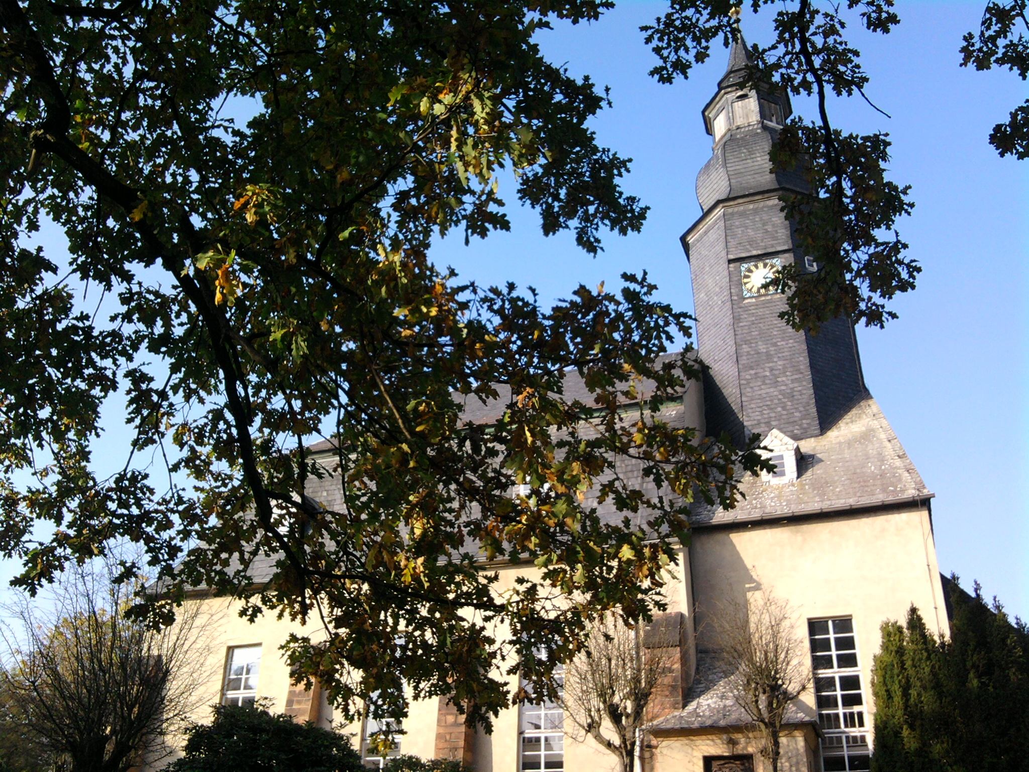 Church in Langenleuba-Niederhain in Thuringia/Germany